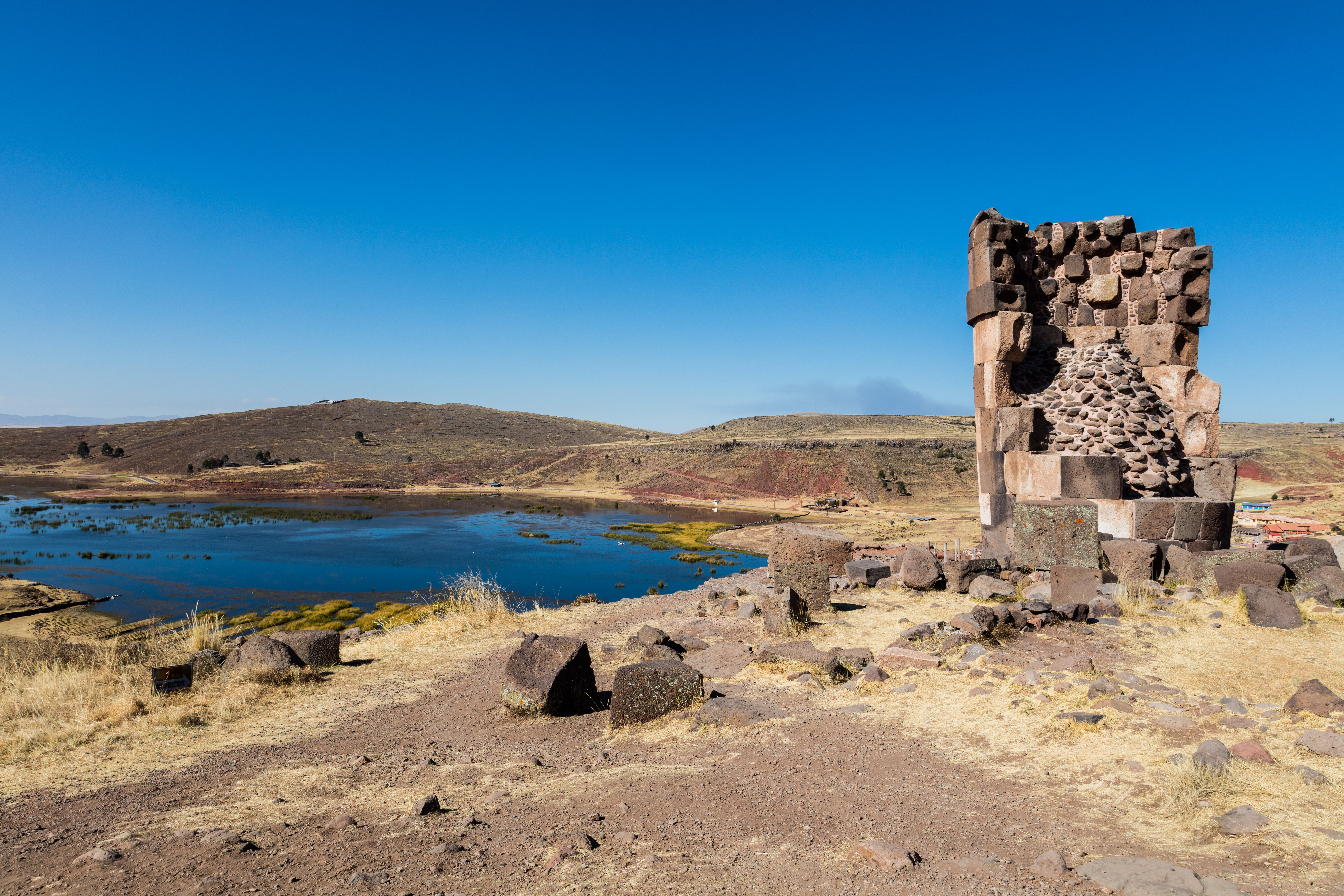 Chullpa funerary tower, Sillustani, Peru